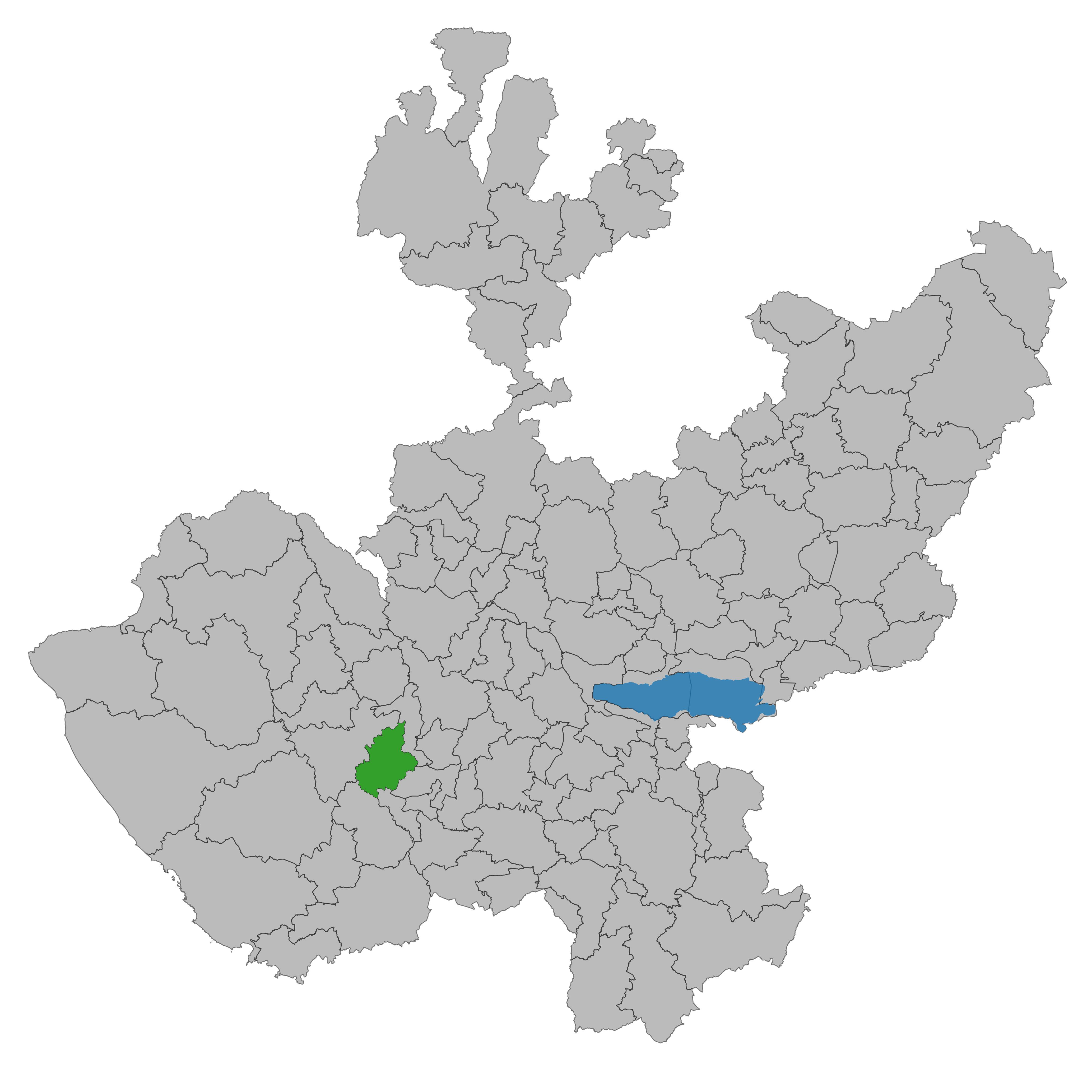 Municipality of Jalisco. Prepared with the software QGIS version 2.8.2 Wien & with information of SCINCE 2010 version 05/2013